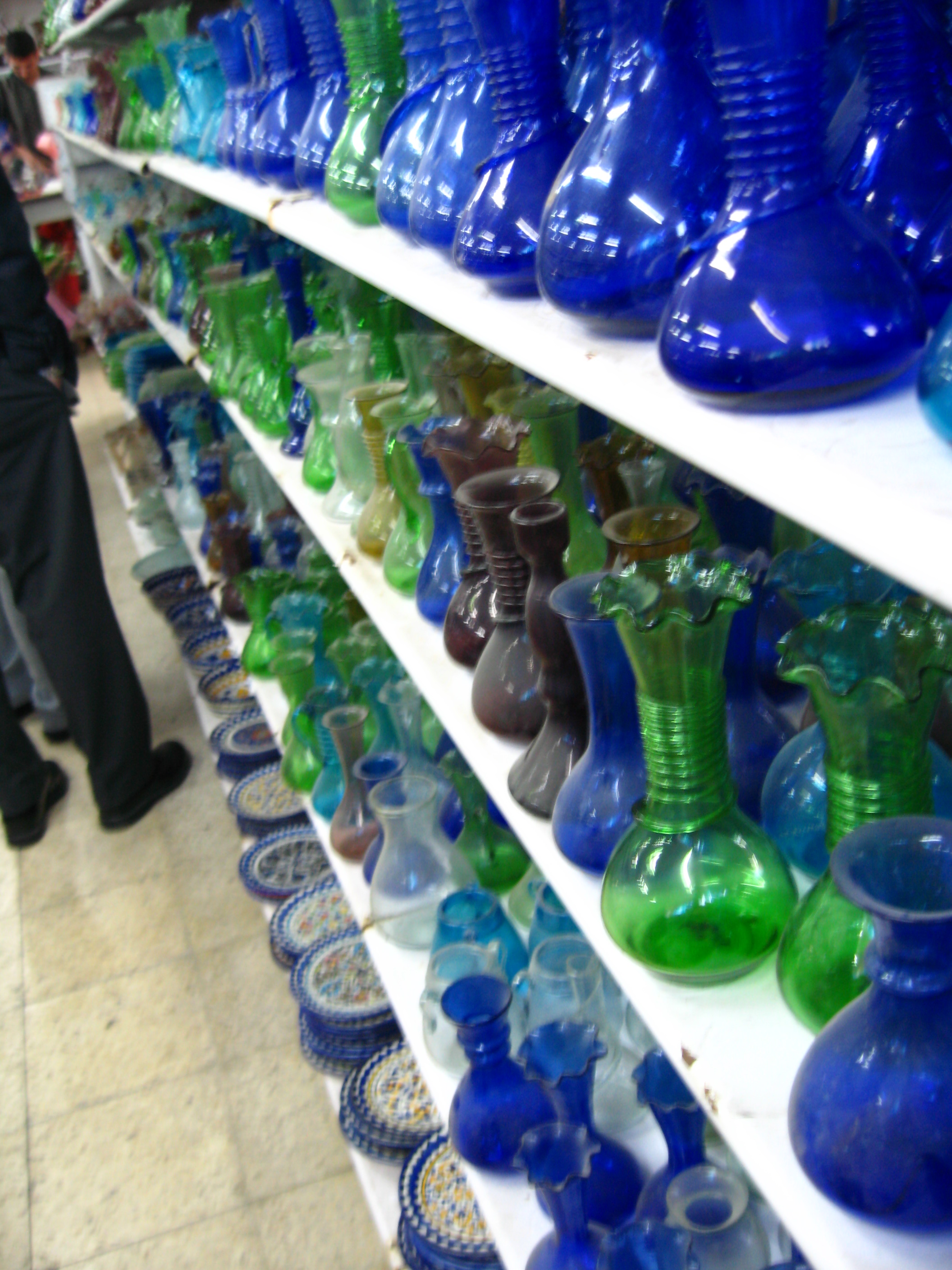 Displays of finished Hebron glass products